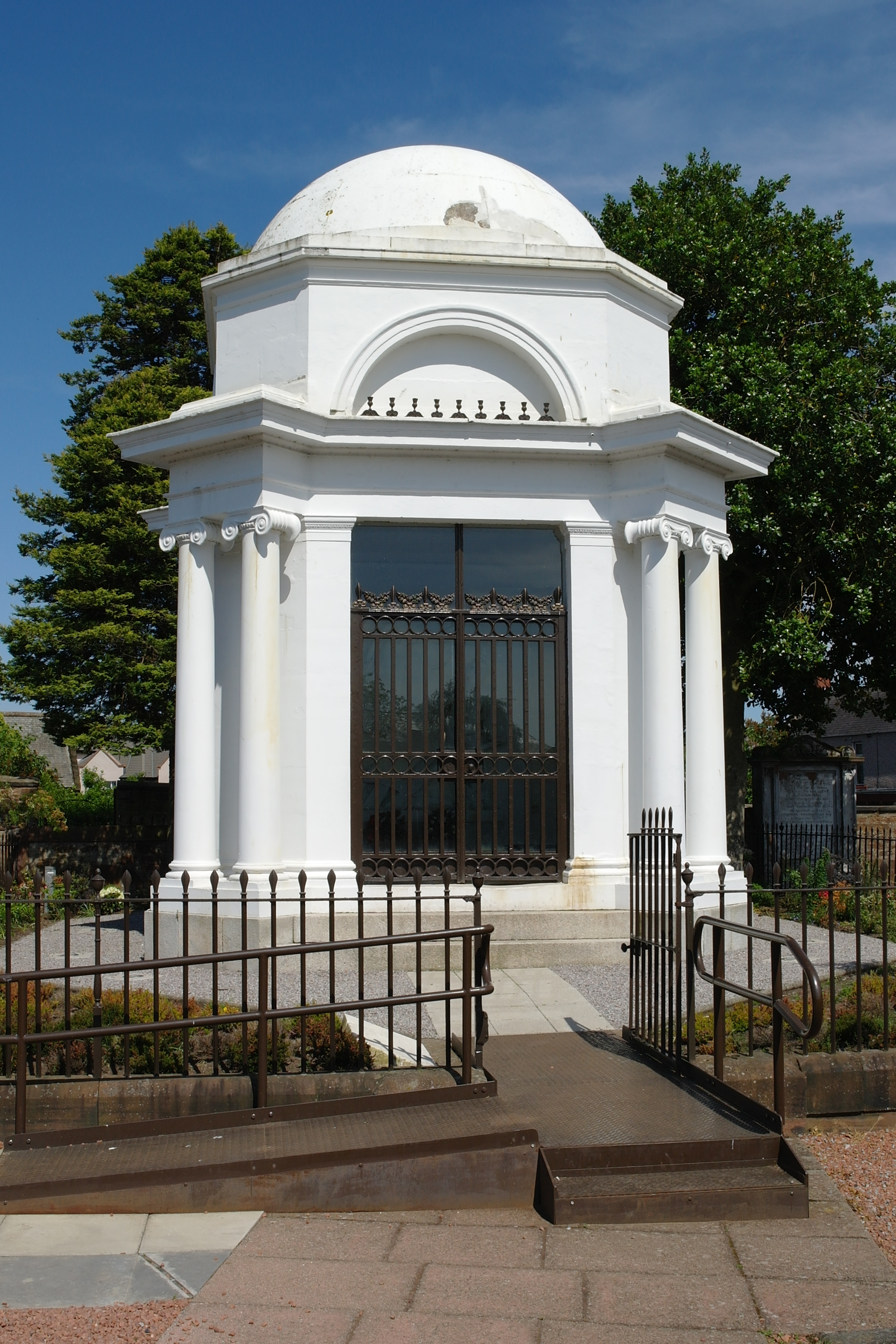 Mausoleum of Robert Burns located in the yard of St Michael's Church, Dumfries.